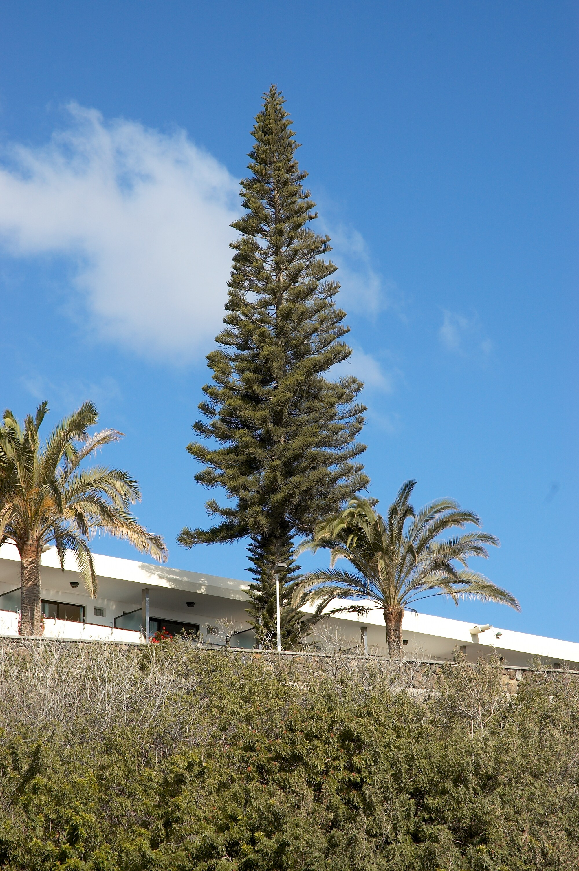 Araucaria columnaris in Gran Canaria, Playa del Inglés. The coordinates are for the tree. Other photos of the same tree